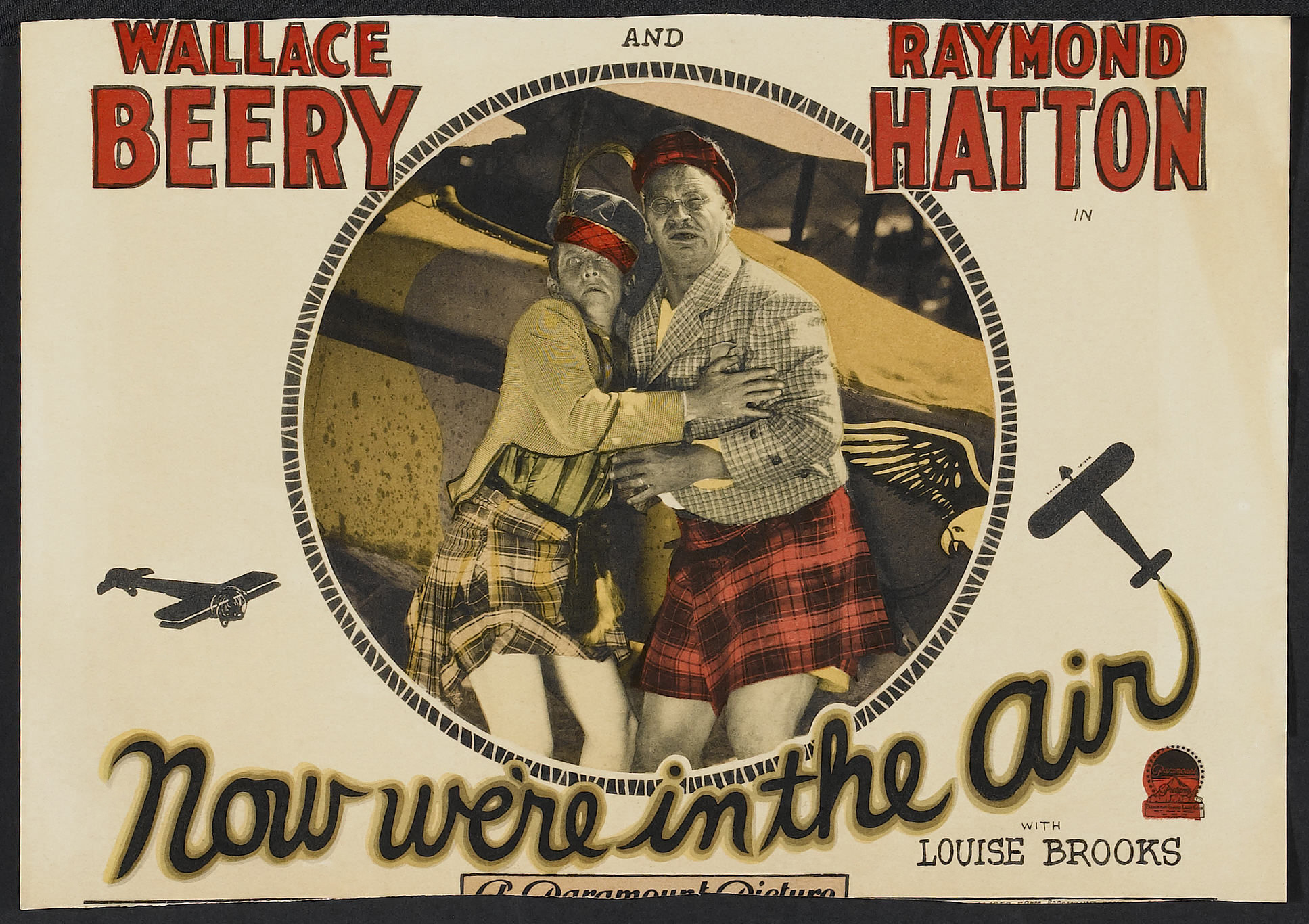 Film poster for the 1927 film Now We're in the Air, now thought lost.